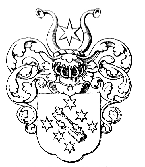 Knagenhjelm coat of arms in Nyt dansk Adelslexikon by Anders Thiset.